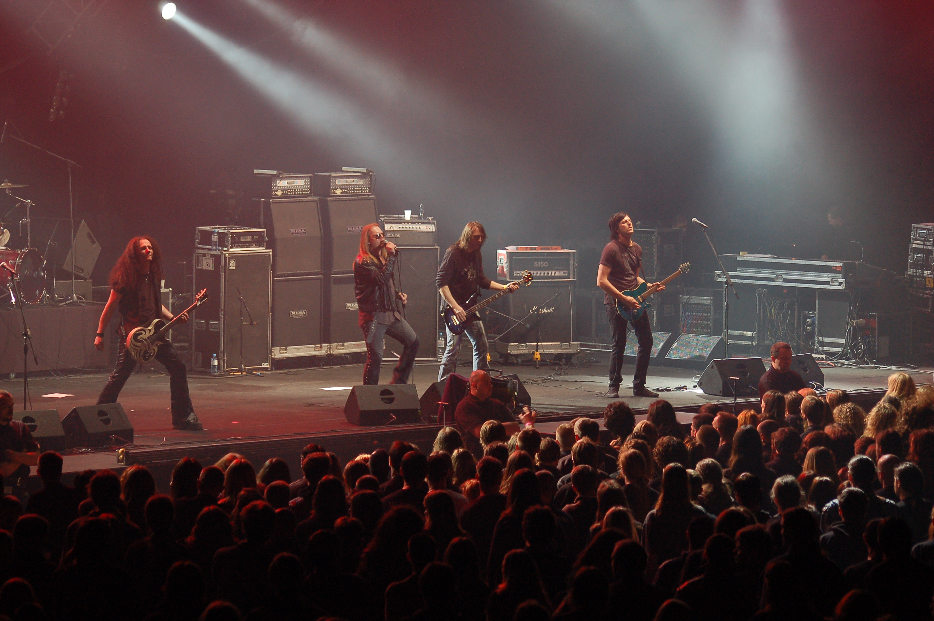 Jørn Lande during Metalmania 2007 festival